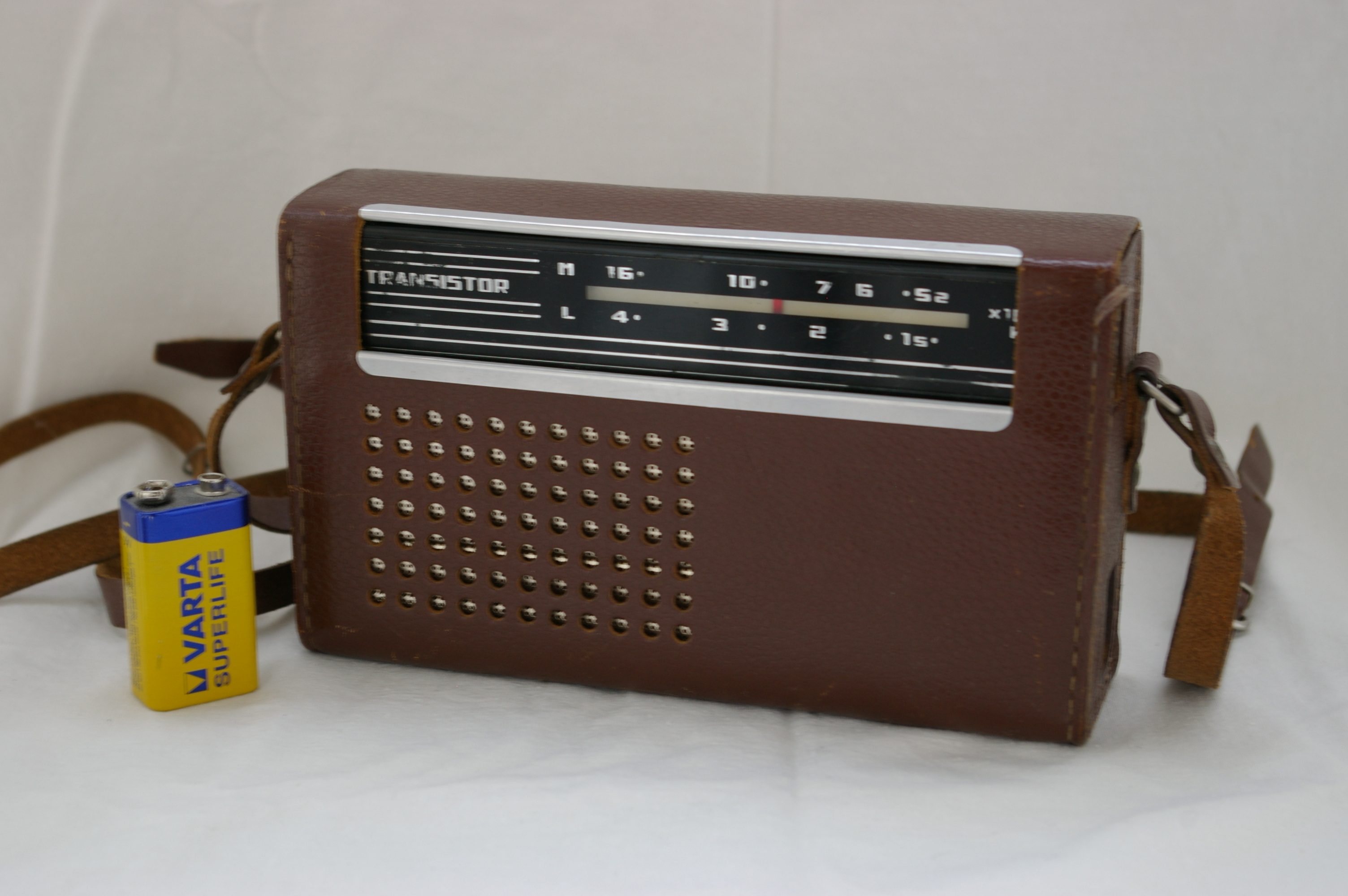 RRR Selga, very popular in USSR portable radio. Riga, 1963